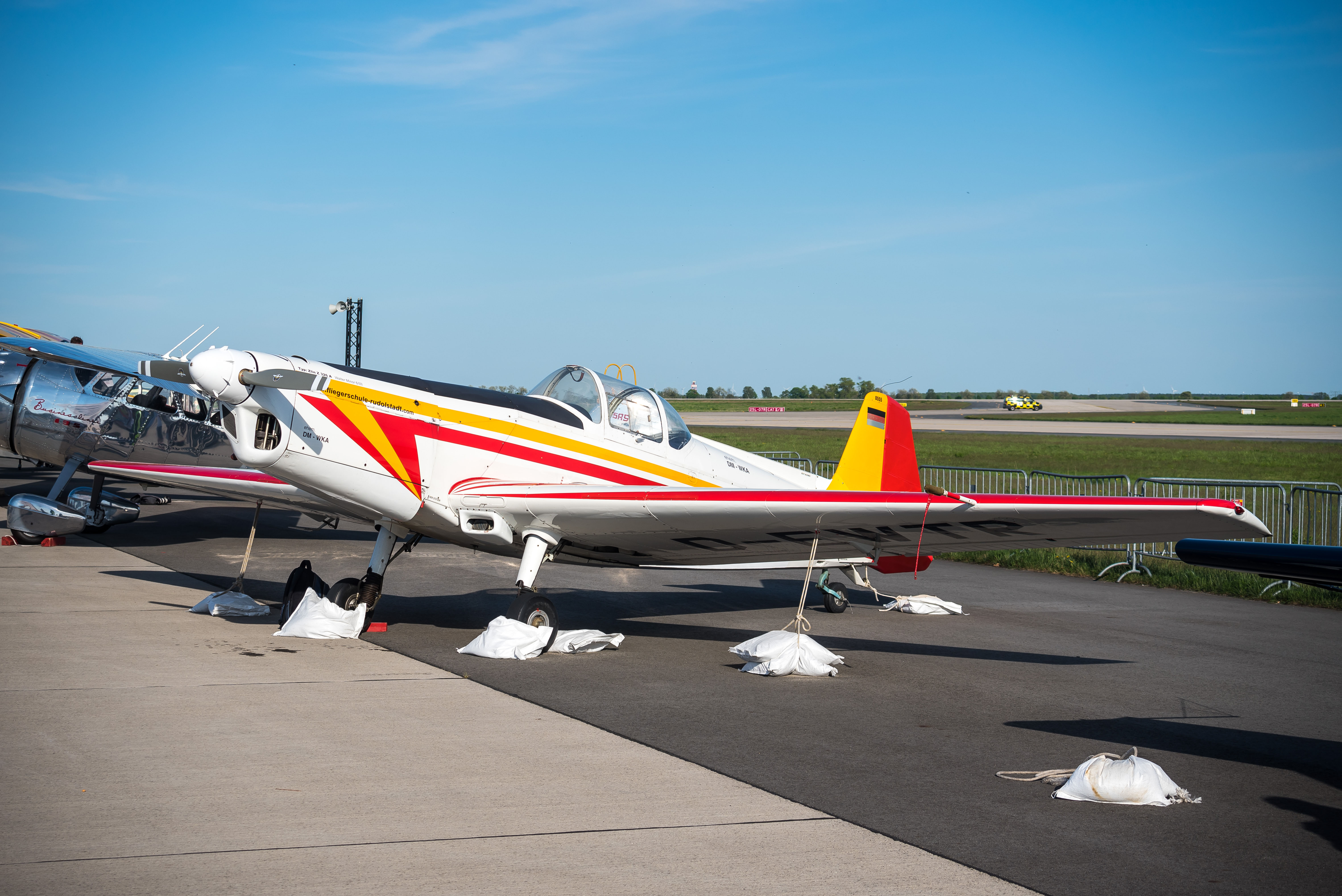 A Zlín Z-326A aircraft, registration D-EWTR (previously DM-WKA), on display at ILA 2018.